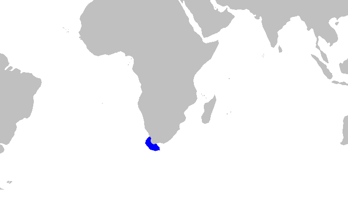 Distribution map for Apristurus saldanha